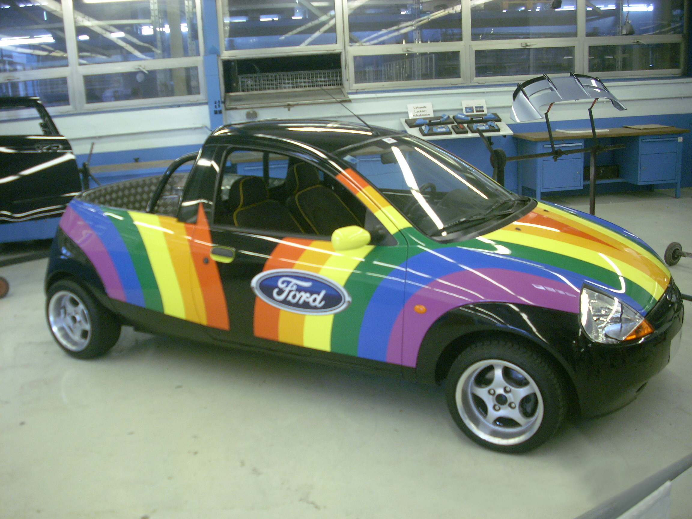 Ford Ka Pickup, side view, seen at Ford Family Day at Ford Niehl plant